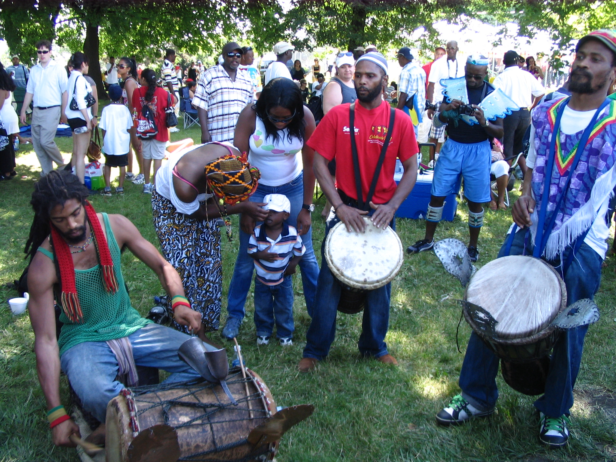 Some drummers hold a jam session near the Caribana parade route